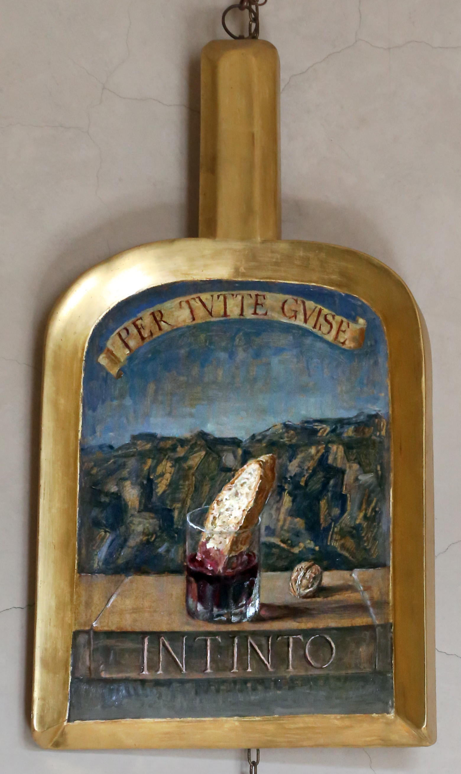 Shovels of Accademici della Crusca